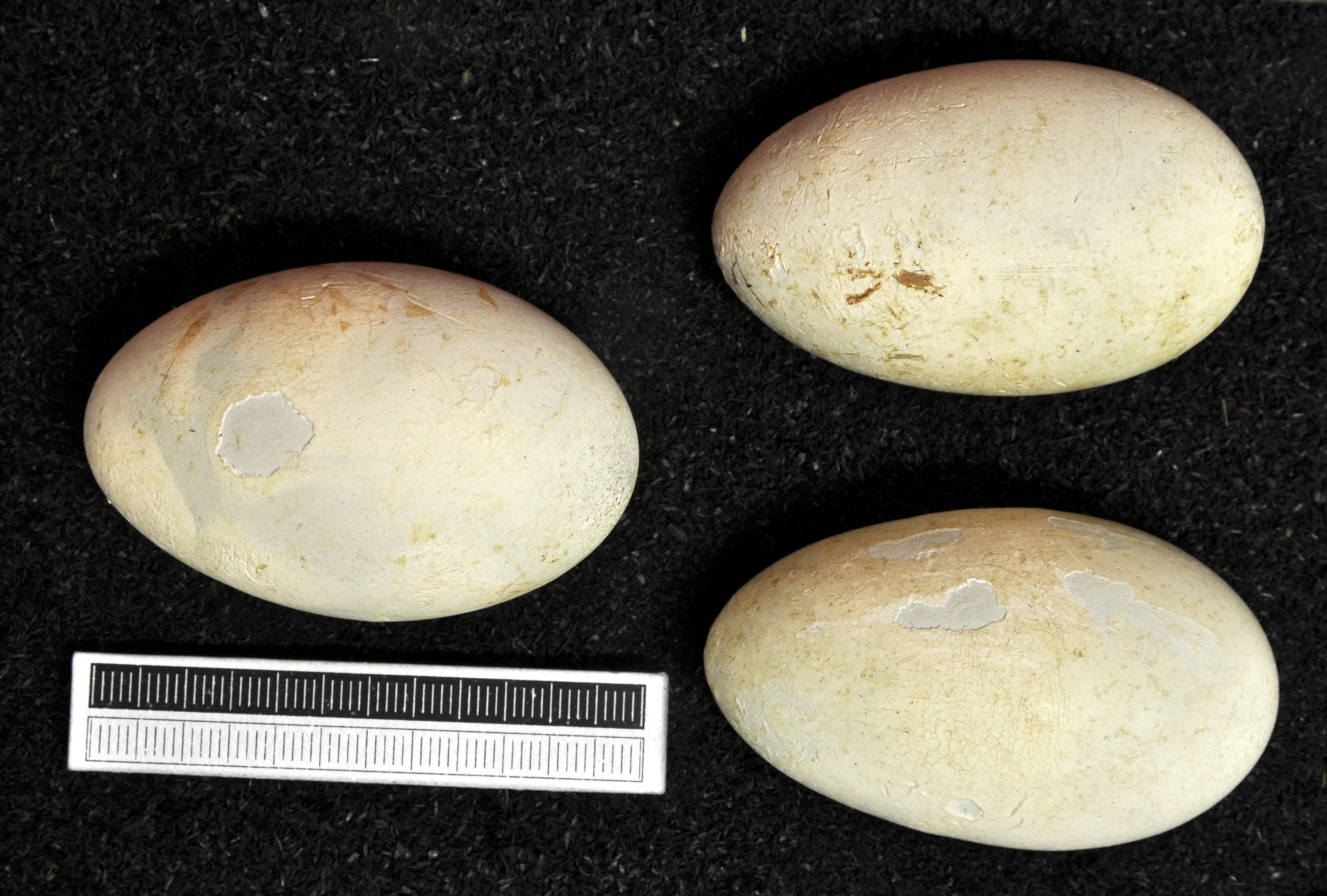 European shag Phalacrocorax aristotelis , egg, Coll. Museum Wiesbaden